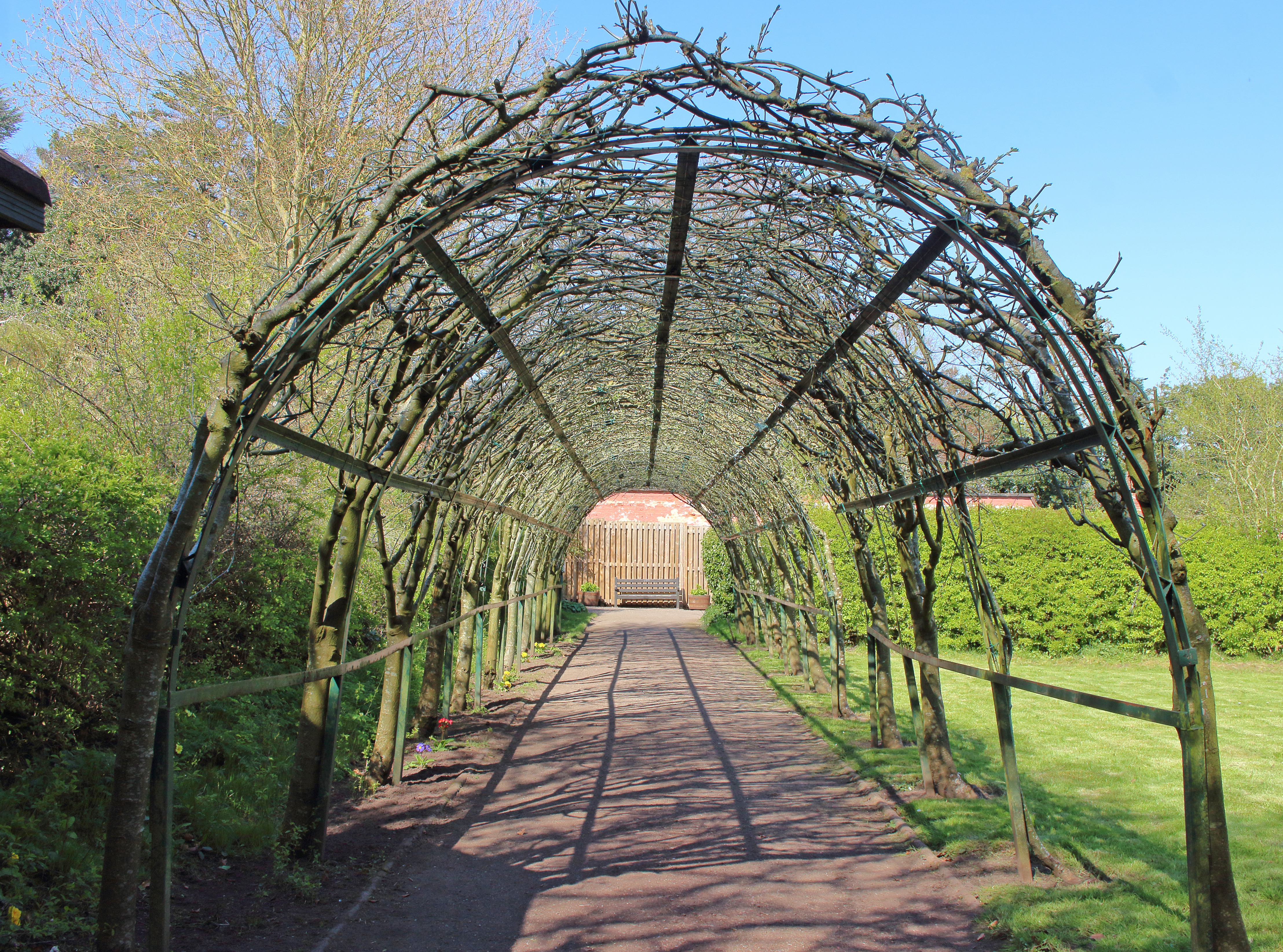 View north through the laburnum arch